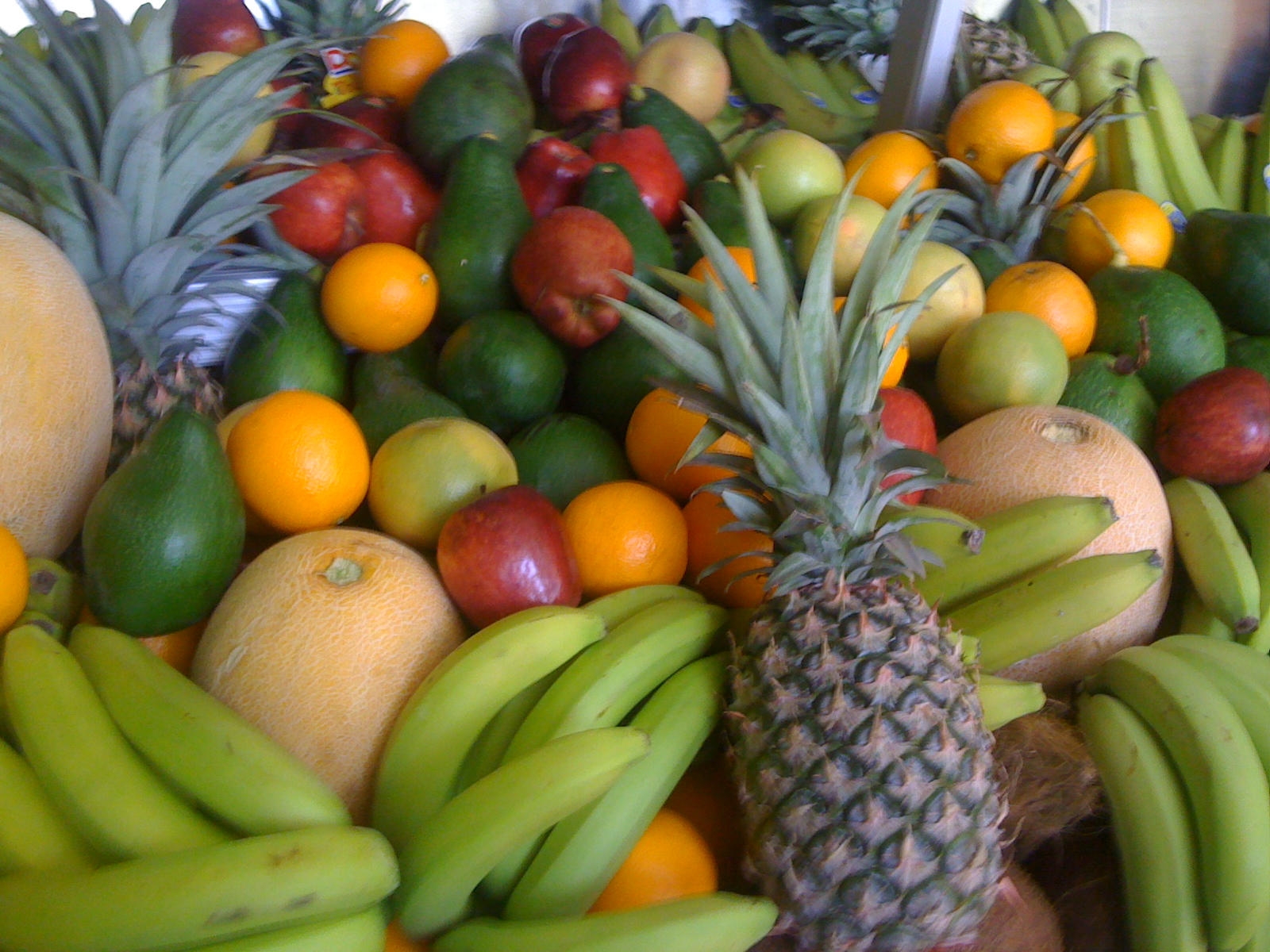 Different Types of fruits